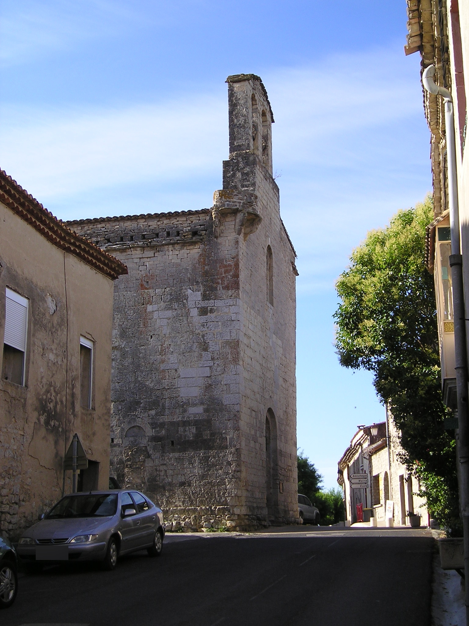 The church of Sainte-Croix-de-Quintillargues, Hérault, France.